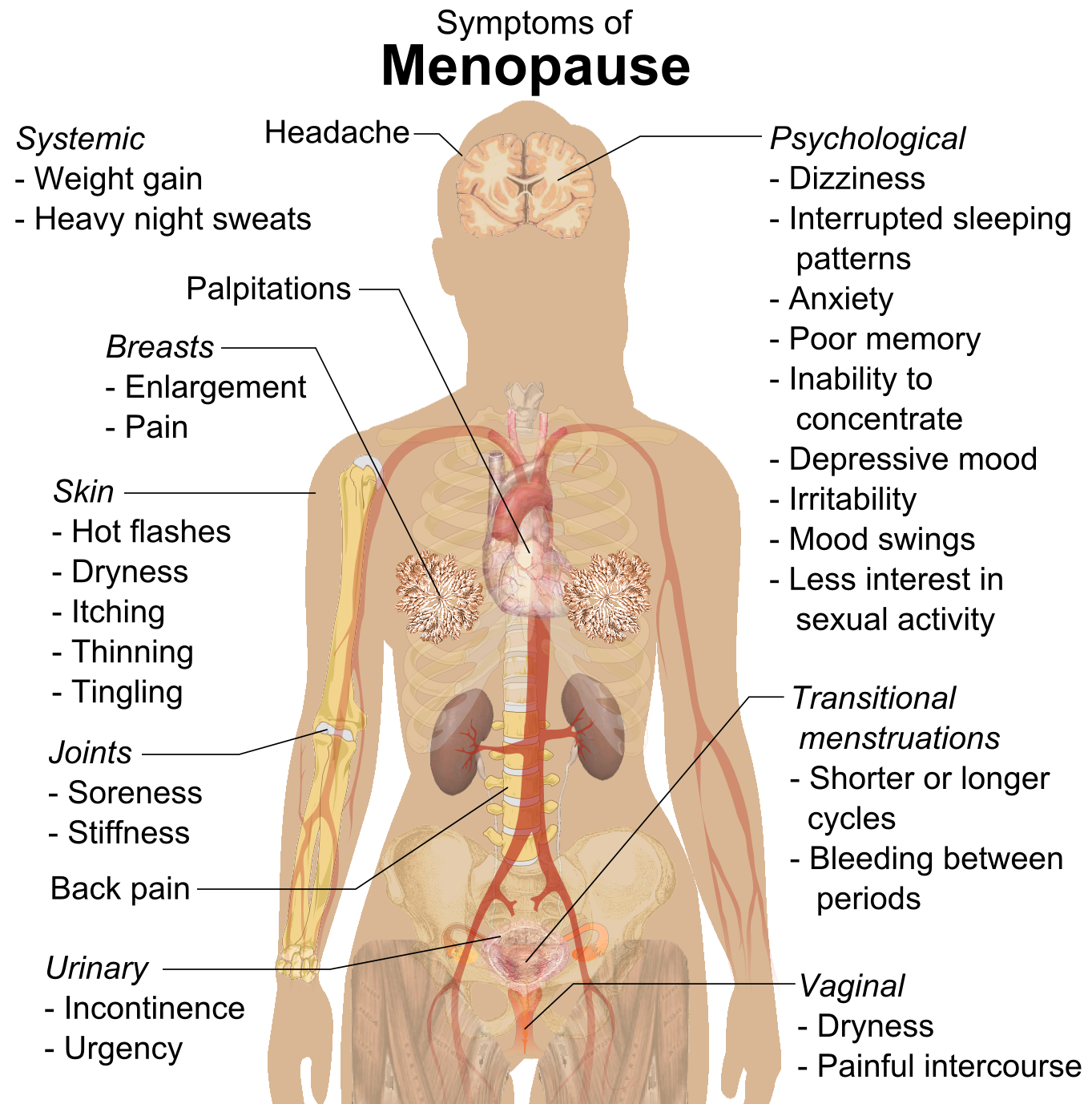 Symptoms of menopause, taken from entries at corresponding Wikipedia article.